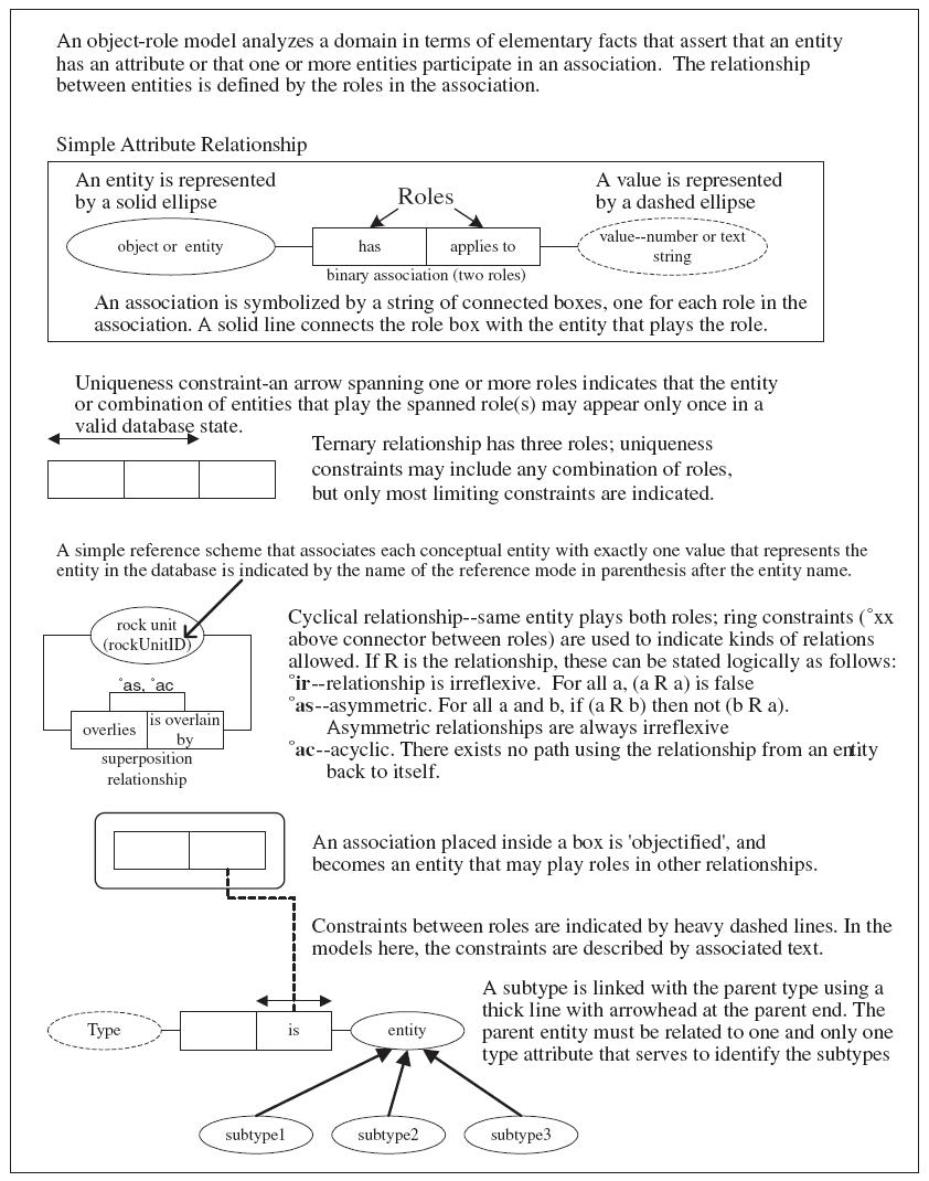 Overview of Object-Role Model (ORM) graphical notation and conventions.